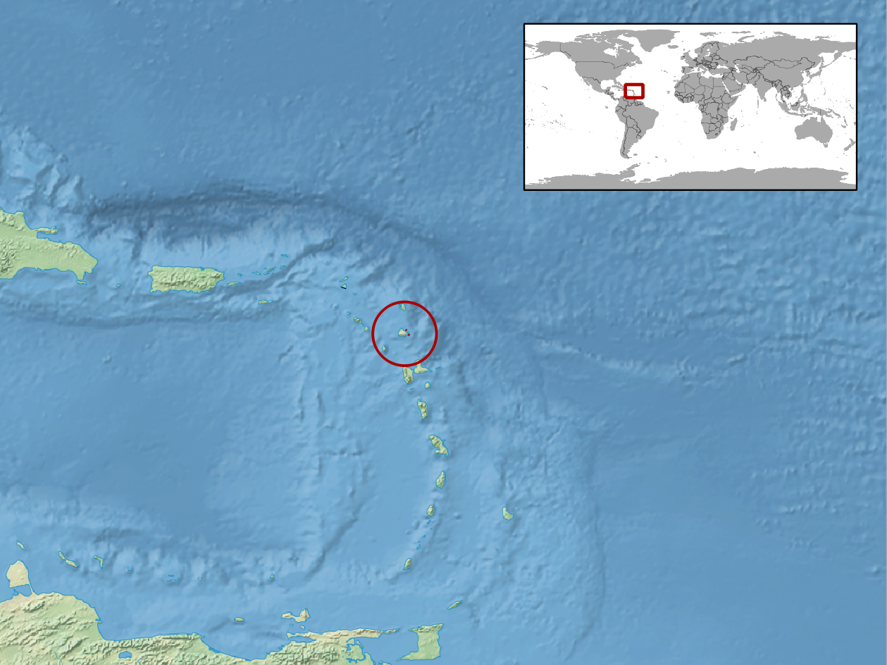 geographic distribution of Alsophis antiguae (Native: Antigua and Barbuda)